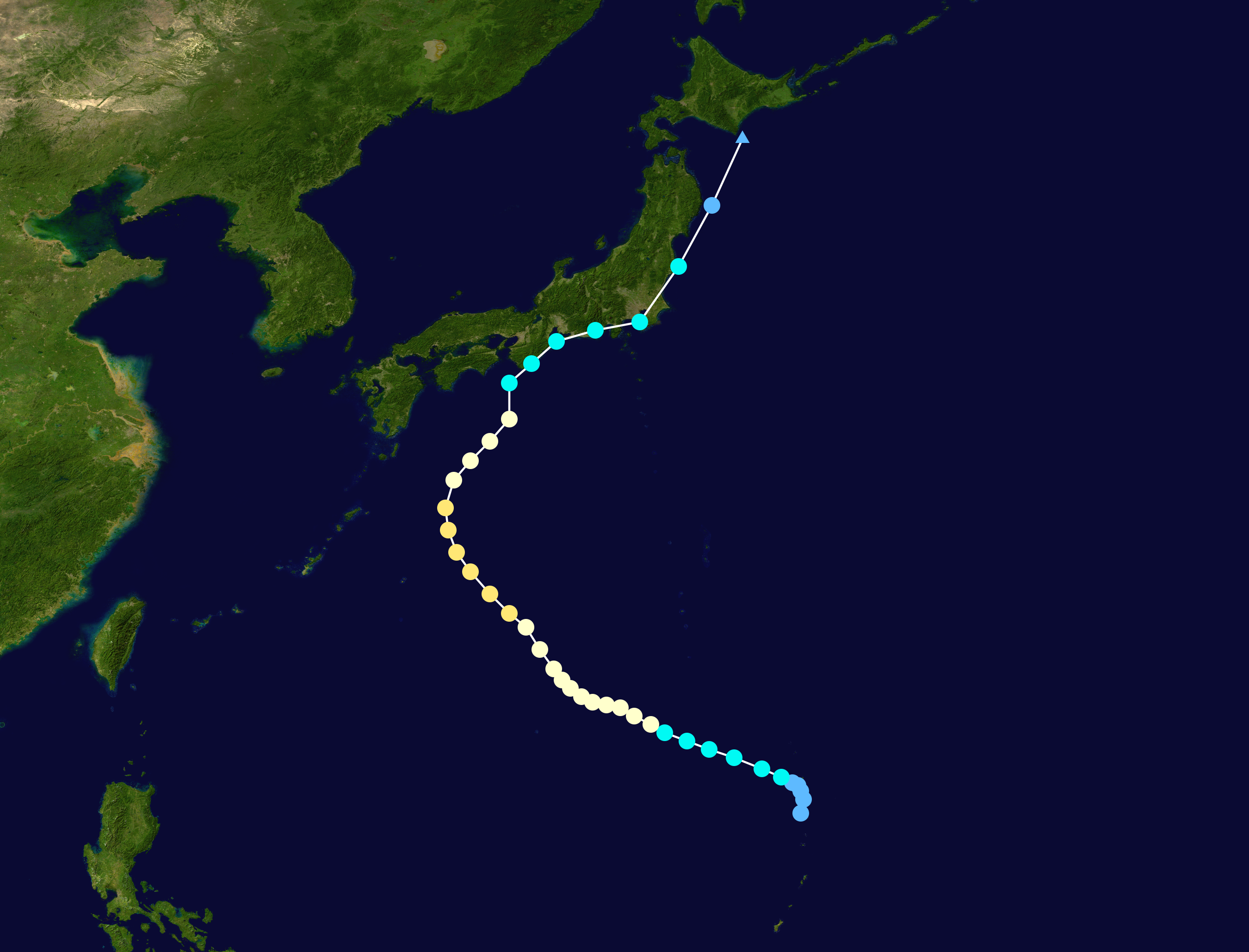 Track map of Typhoon Pabuk of the 2001 Pacific typhoon season. The points show the location of the storm at 6-hour intervals. The colour represents the storm's maximum sustained wind speeds as classified in the Saffir–Simpson scale (see below), and the shape of the data points represent the nature of the storm, according to the legend below. Saffir–Simpson scale Tropical depression≤38 mph≤62 km/h Category 3111–129 mph178–208 km/h Tropical storm39–73 mph63–118 km/h Category 4130–156 mph209–251 km/h Category 174–95 mph119–153 km/h Category 5≥157 mph≥252 km/h Category 296–110 mph154–177 km/h Unknown Storm type Tropical cyclone Subtropical cyclone Extratropical cyclone / Remnant low / Tropical disturbance / Monsoon depression